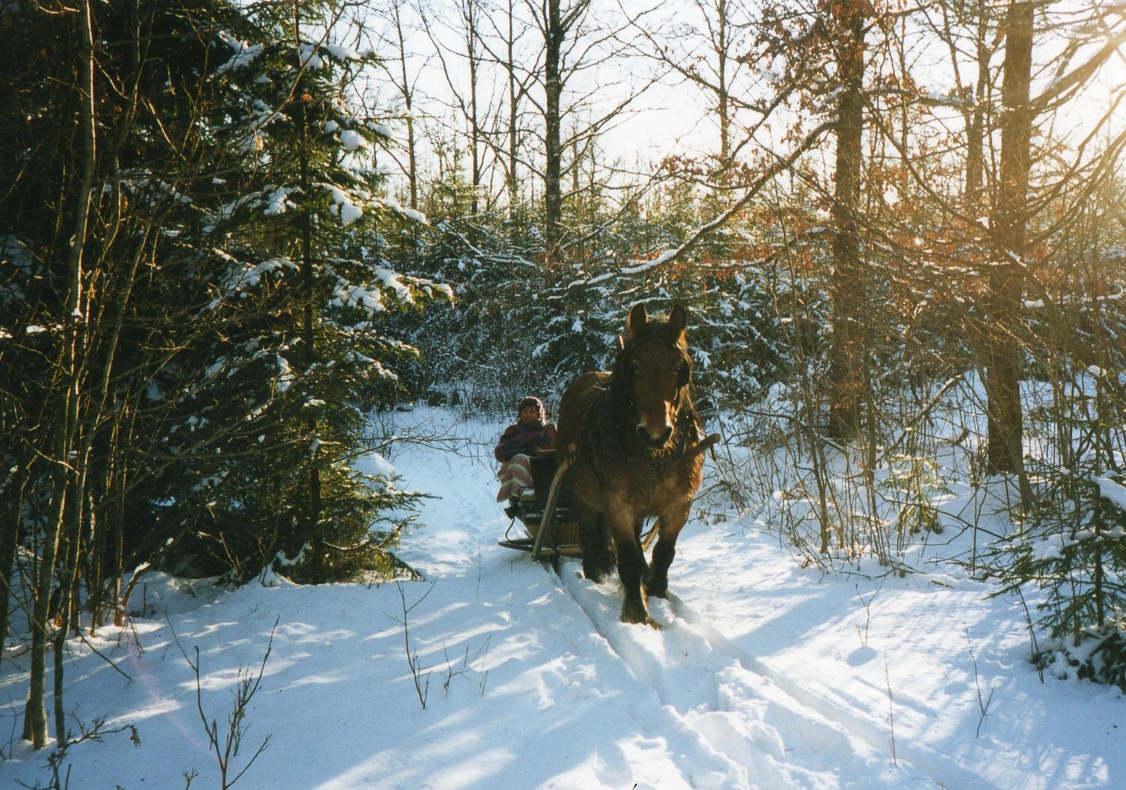 horse drawing a sledge